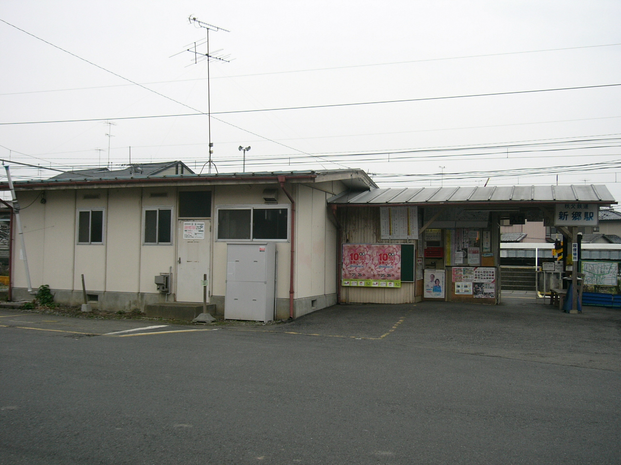 Shingo Station on the Chichibu Main Line in Saitama Prefecture, Japan